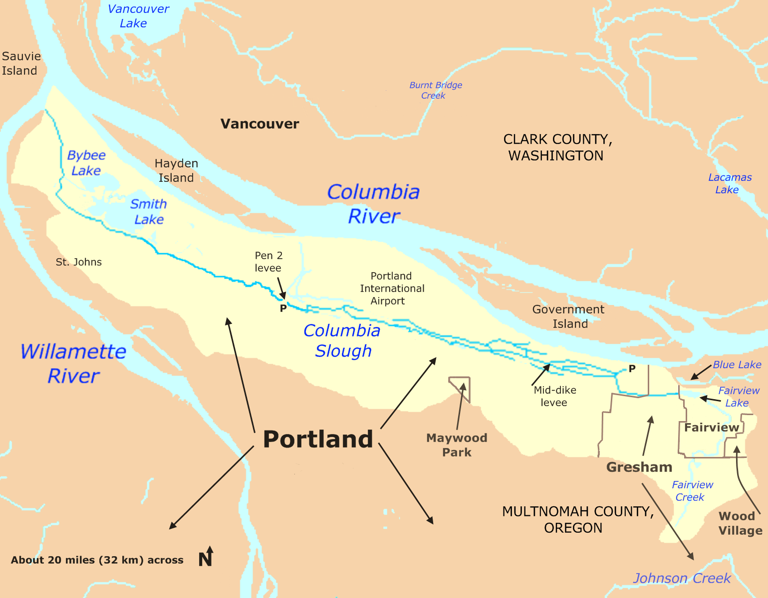 Map of Columbia Slough watershed in Multnomah County, Oregon, United States. The slough begins in Fairview, Oregon, and flows into the Willamette River at Portland. The symbol P indicates a pumping station.